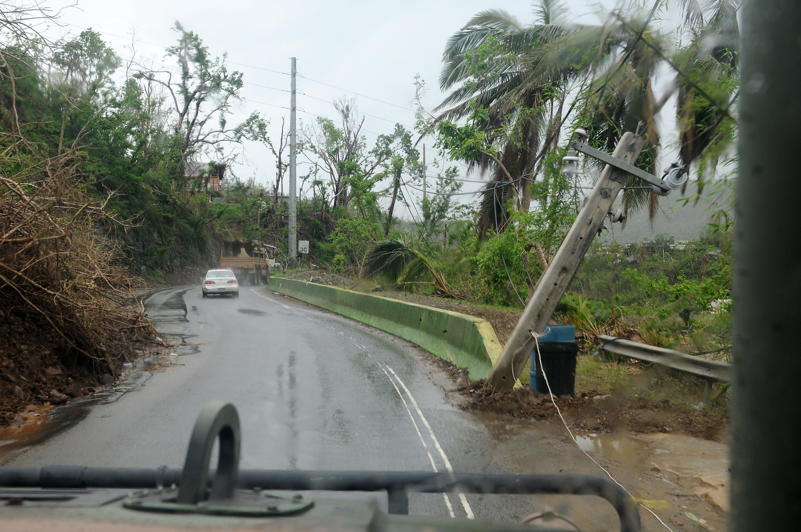 Members of the 200th Red Horse Squadron from the Ohio National Guard out of Mansfield are working together with the 139th Battalion Support Brigade from the South Dakota National Guard in providing potable water for those in need in the municipality of Comerío, Puerto Rico, after Hurricane Maria disrupted all utilities leaving the Island with no water or electrical power, October 16. The Red Horse Squadronâs job is to purify the much needed water to be consumed by the people and the team from the 139th BSB provides the transportation of the precious liquid to the distribution points. Today, the operation got a temporary set-back when torrential rains started to turbid and flood the La Plata River dam area where they had set-up operations making it grow more than 30 feet wide and forcing the two teams to halt operations and convoy toward a safe location nearby. From there theyâll carry on with their continuous efforts to provide clean water and its transportation to those in need. (National Guard photos by 1st Sgt. Waldemar Rivera, PRNG-PAO)